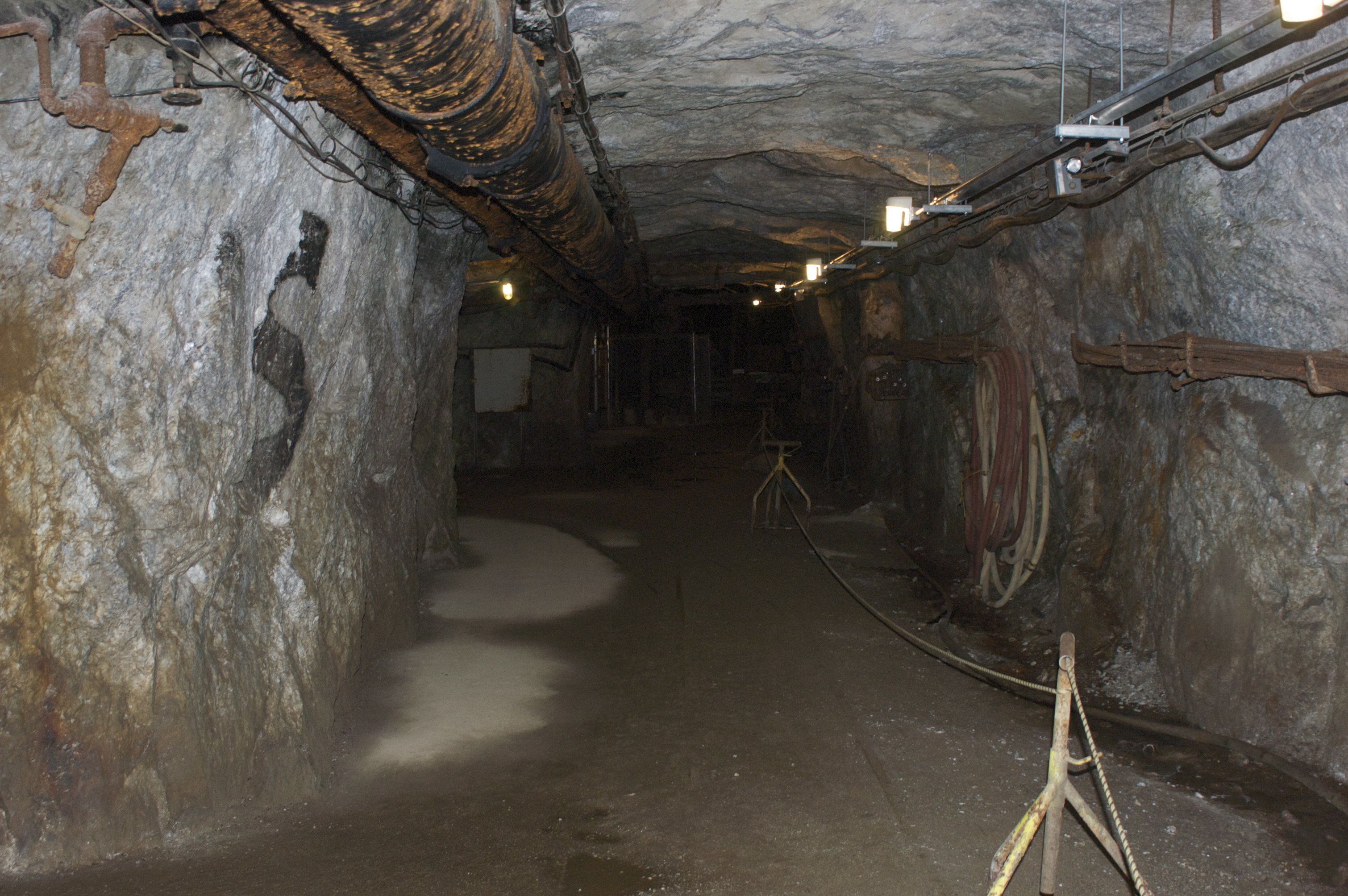 Inside Sterling Hill Mine, Ogdensburg, New Jersey